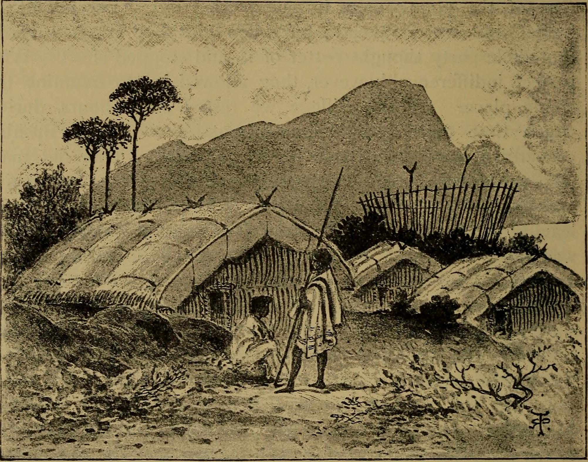 Title: Journal of researches into the natural history and geology of the countries visited during the voyage round the world of H.M.S. 'Beagle,' under the command of Captain Fitz Roy Year: 1913 (1910s) Authors: Darwin, Charles, 1809-1882 Subjects: Beagle Expedition (1831-1836) Natural history Geology Voyages around the world Publisher: London : J. Murray Text Appearing Before Image: ered as a hardship.I heard of one poor wretch who, during hostilities, ran awayto the opposite party ; being met by two men, he was imme-diately seized ; but as they could not agree to whom he shouldbelong, each stood over him with a stone hatchet, and seemeddetermined that the other at least should not take him awayalive. The poor man, almost dead with fright, was only savedby the address of a chiefs wife. We afterwards enjoyed apleasant walk back to the boat, but did not reach the ship tilllate in the evening. December ^otJi.—In the afternoon we stood out of the Bayof Islands, on our course to Sydney. I believe we were allglad to leave New Zealand. It is not a pleasant place. 458 NEW ZEALAND CHAP. XVIII Amongst the natives there is absent that charming simplicitywhich is found at Tahiti ; and the greater part of the Englishare the very refuse of society. Neither is the country itselfattractive. I look back but to one bright spot, and that isWaimate, with its Christian inhabitants. Text Appearing After Image: HIPPAH, NEW ZEALAND.